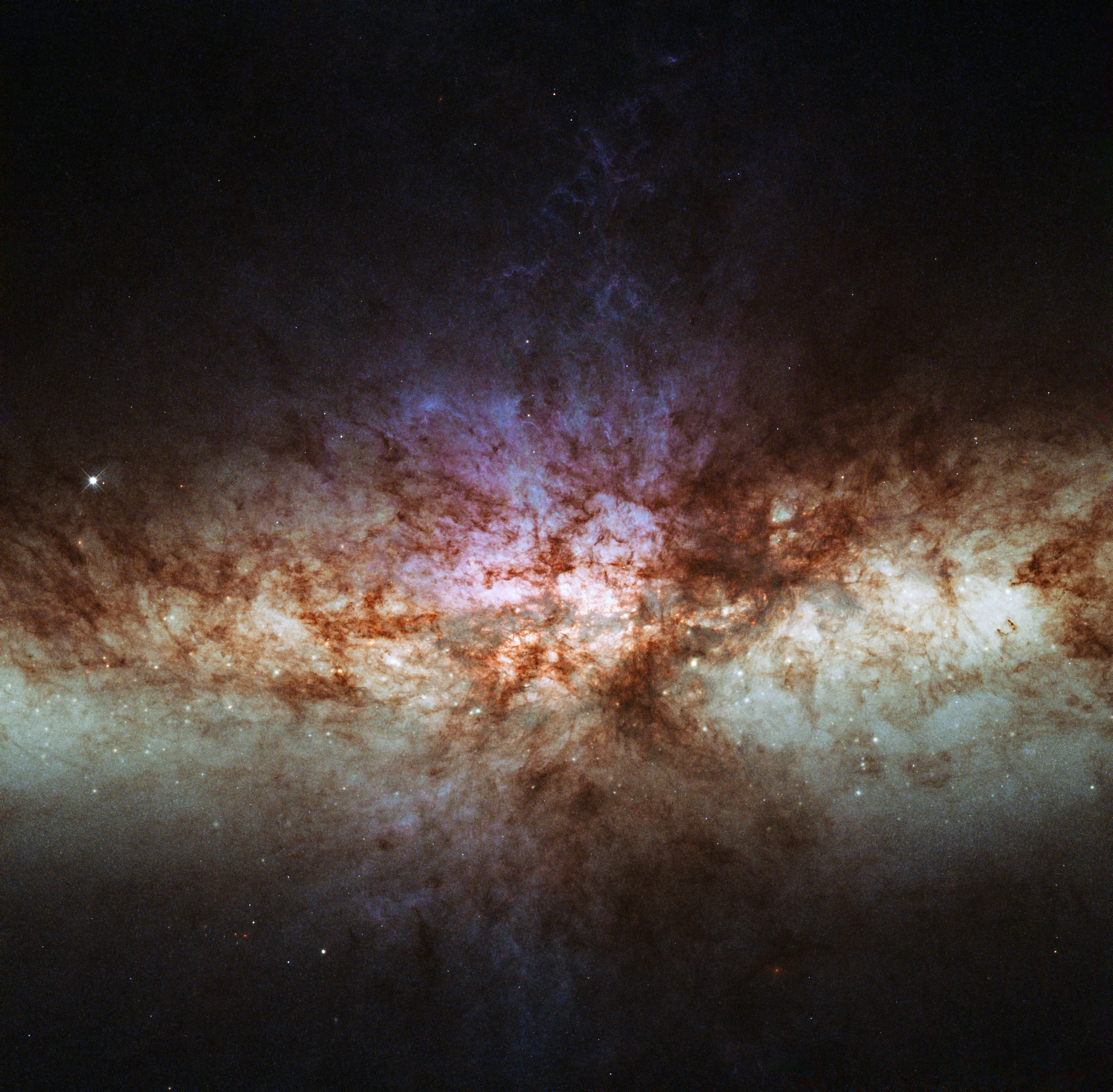 This image shows the most detailed view ever of the core of Messier 82 (M 82), also known as the Cigar Galaxy. Rich with dust, young stars and glowing gas, M 82 is both unusually bright and relatively close to Earth. The starburst galaxy is located around 12 million light-years away in the constellation of Ursa Major (The Great Bear). This is not the first time Hubble has imaged the Cigar Galaxy. Previous images (for example heic0604) show a galaxy ablaze with stars. Yet this image looks quite unlike them, and is dominated instead by glowing gas and dust, with the stars almost invisible. Why such a difference? The new image is more detailed than previous Hubble observations – in fact, it is the most detailed image ever made of this galaxy. But the reason it looks so dramatically different is down to the choices astronomers make when designing their observations. Hubble’s cameras do not see in colour: they are sensitive to a broad range of wavelengths which they image only in greyscale. Colour pictures can be constructed by passing the light through different coloured filters and combining the resulting images, but the choice of filters makes a big difference to the end result. Using filters which allow through relatively broad bands of colours, similar to those our eyes see, results in natural-looking colours and bright stars, as starlight shines brightly across the spectrum. Using filters transparent only to the wavelengths emitted by specific chemical elements, as in this image, isolates the light from glowing gas clouds, while blocking out much of the starlight. This explains why the stars appear faint in this image, and why the dust lanes are sharply silhouetted against the brightly glowing gas clouds. The image shows the light emitted by sulphur (shown in red), visible and ultraviolet light from oxygen (shown green and blue, respectively), and light from hydrogen (cyan). The field of view is approximately 2.7 by 2.7 arcminutes.